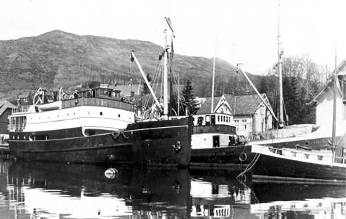 Lønningdal I (right) and Lønningdal II (left) in the mid 1930's.